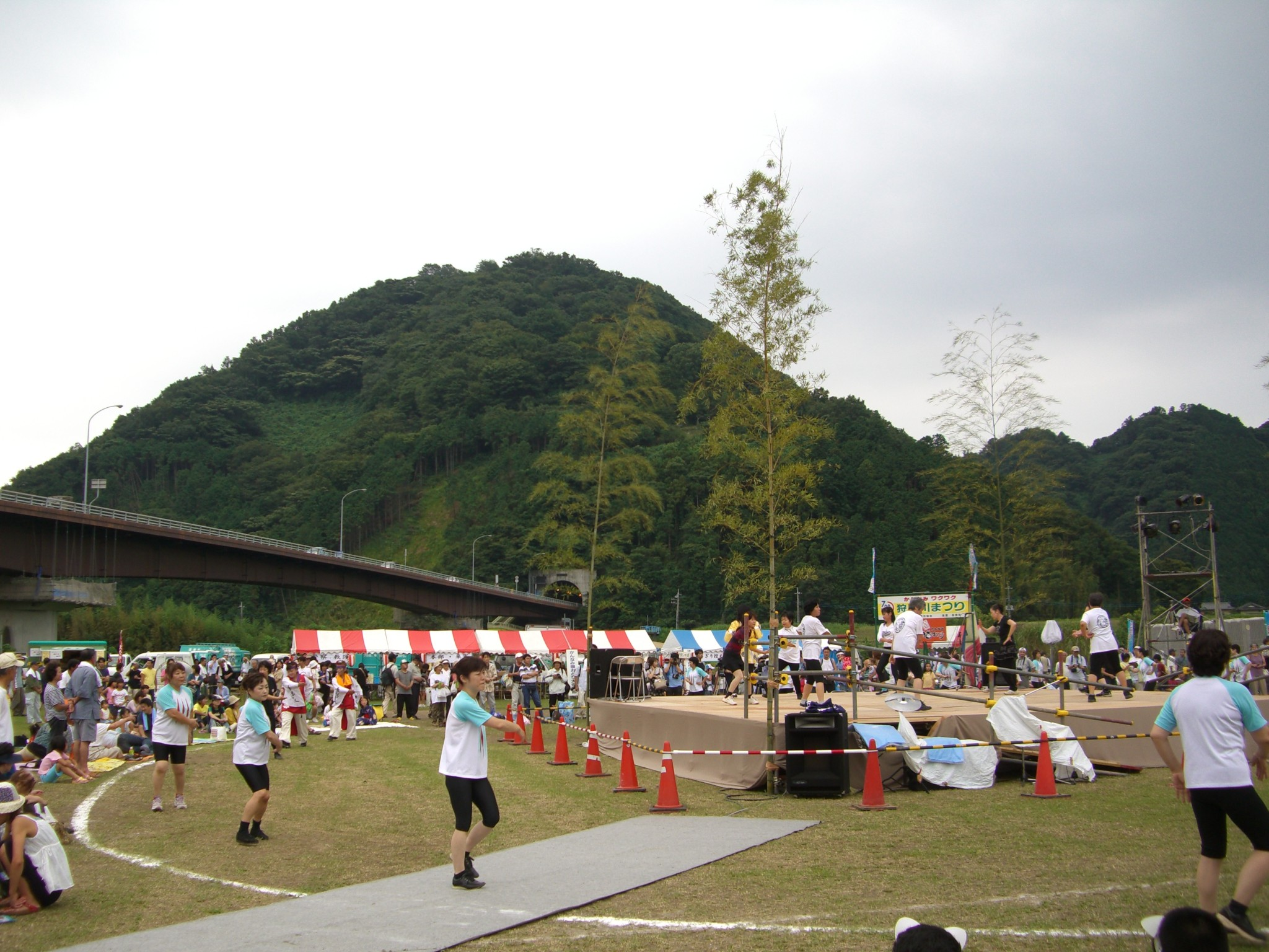 A scene of Kannami Neko-odori (Kannami Cat Dance) in Kannnami, Shizuoka Prefecture.